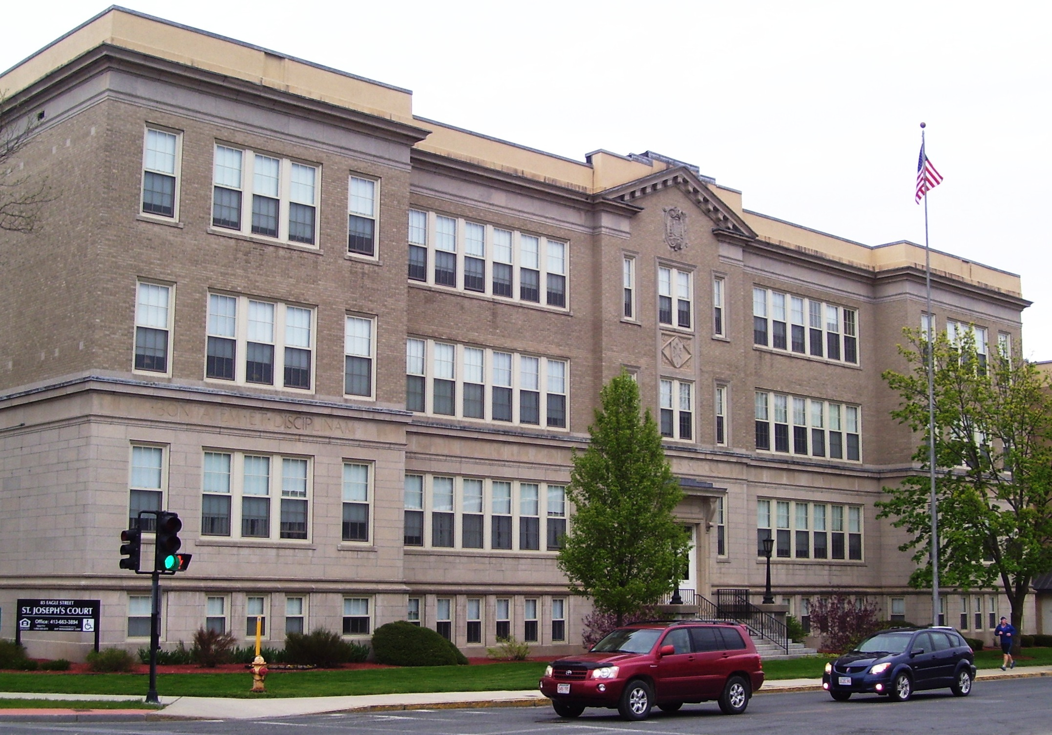 St. Joseph's School is a historic former school building located at 85 Eagle Street at the intersection of Union Street in North Adams, Massachusetts. It was added to the National Register of Historic Places in 1983. The building is now called St. Joseph's Court and is used for Federally-subsidized low-income housing for senior citizens (Source: "St. Joseph's Court" on the Silver Census website)